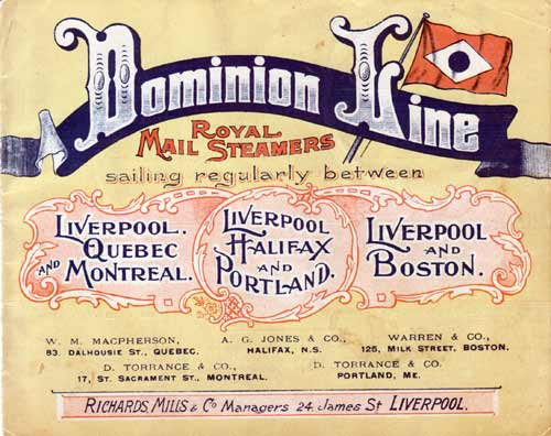 Advertisement from the 1890's for the Dominion Line, showing routes, agencies and fleet information.